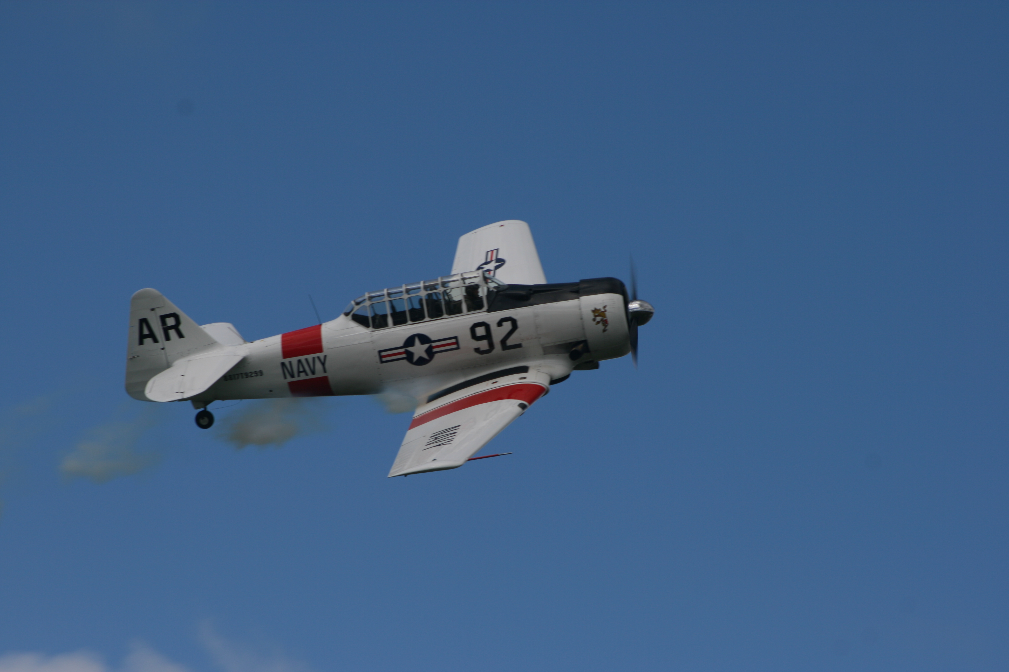 North American T6 Harvard 3 (aka Texan), aircraft formerly of the RNZAF now flying with the Wardbirds, (Aircraft Reg ZK-WAR, S/No NZ1092) shown here painted in US Navy colours at the 2012 Ardmore Airport de Havilland Mosquito Launch Airshow.